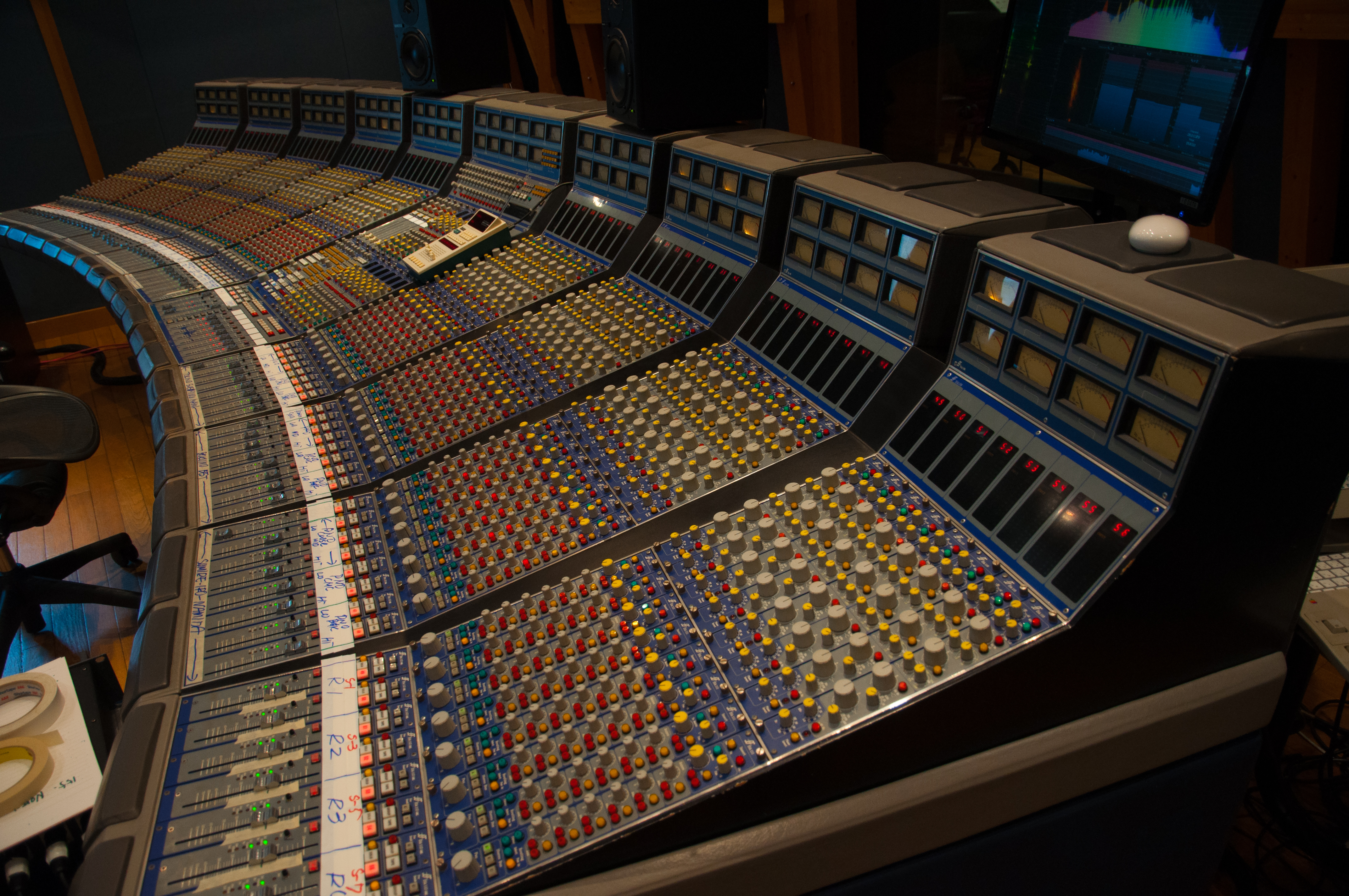 Focusrite Studio Console @ Sound City Setagaya DSC 1923